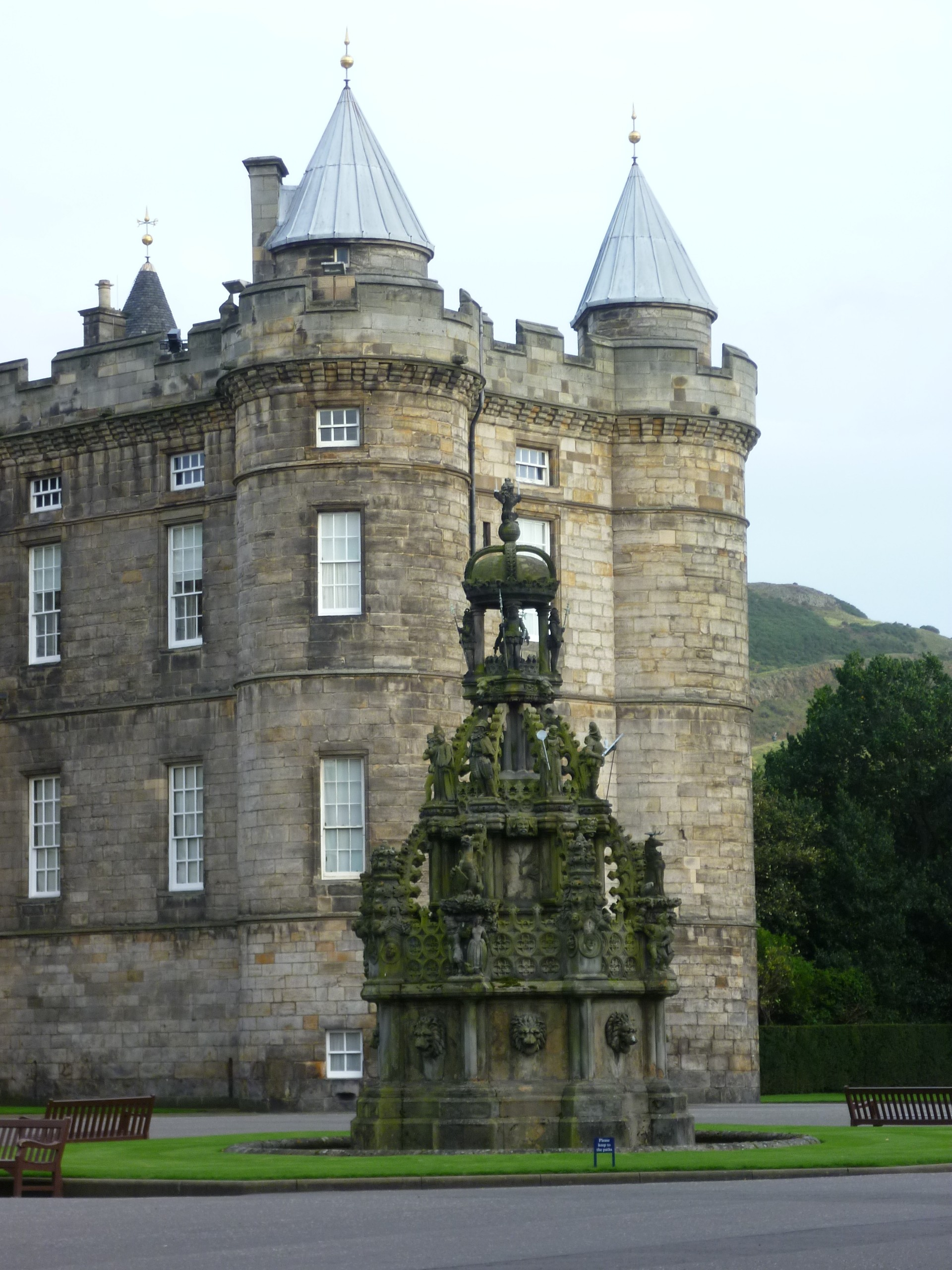 The late 19th-century fountain in the palace forecourt was modelled closely on the 16th-century fountain at Linlithgow Palace.